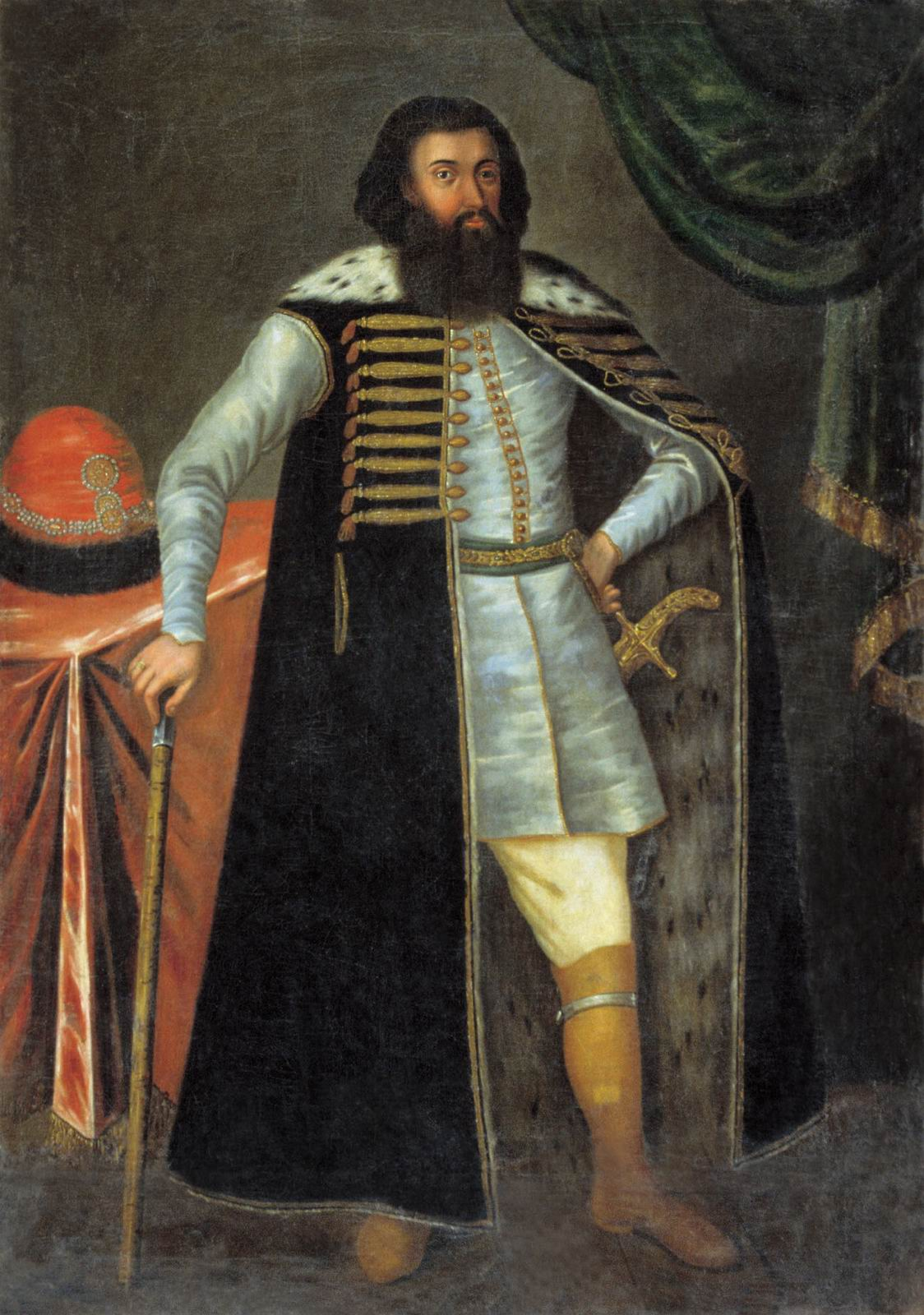 Portrait of Ivan Repnin (1615-1697)